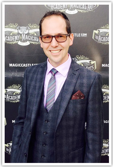 Steve Gore at the Magic Castle in Hollywood